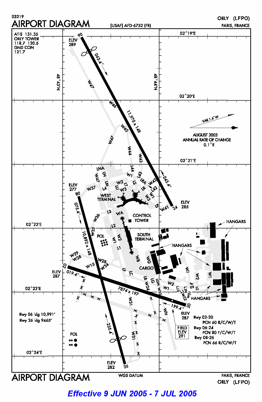 FAA airport diagram for Orly Airport (LFPO), formerly Paris-Orly Air Base, in Orly/Paris, France.